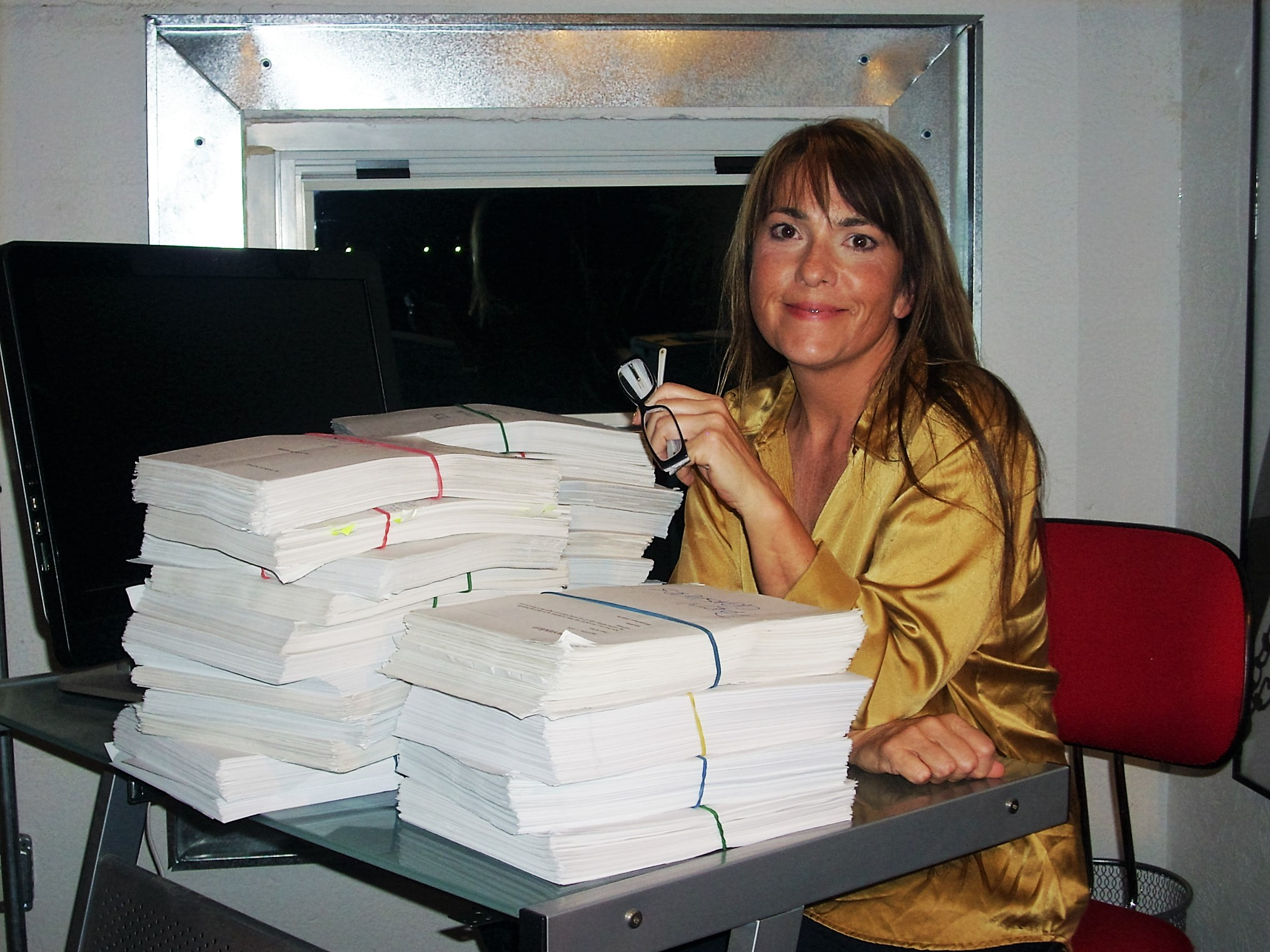 Stephanie Bond in home office